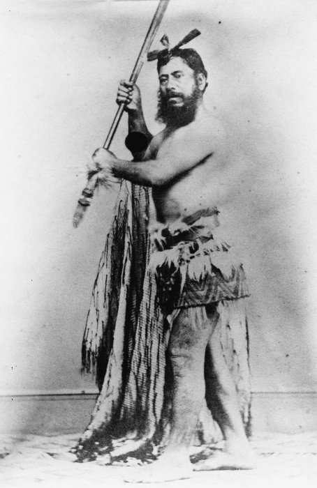 Wirimu Maihi Te Rangikāheke (1815?-1896), also known as William Marsh, circa 1865. He holds a weapon called a taiaha and a korowai (Māori tag cloak), and wears a feathered piupiu. He was a chief of Ngati Rangiwewehi, in the Rotorua district of New Zealand. Te Rangikaheke was a recorder of Maori traditions. From 1849 to 1853 he wrote some 500 pages of material for the Governor of New Zealand, Sir George Grey. This material, consisting of traditional stories and songs and of commentaries upon such matters, formed the source of most of the prose material in Grey's Ko nga moteatea, me nga hakirara o nga Maori (1853), and also provided Grey with at least a quarter of the material for his Ko nga mahinga a nga tupuna Maori (1854), and hence for its translation, Polynesian mythology (1855).